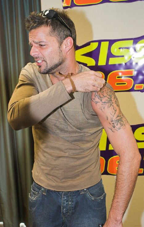 Ricky Martin at KISS 106.1 FM radio in Seattle.